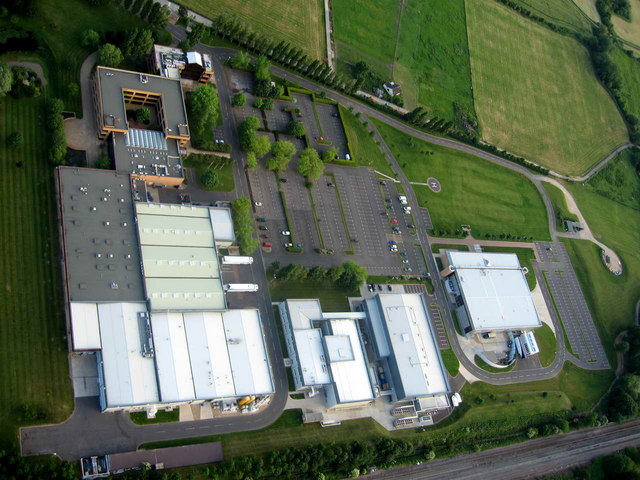 Williams F1, Grove Aerial view from Paramotor at 400' agl.